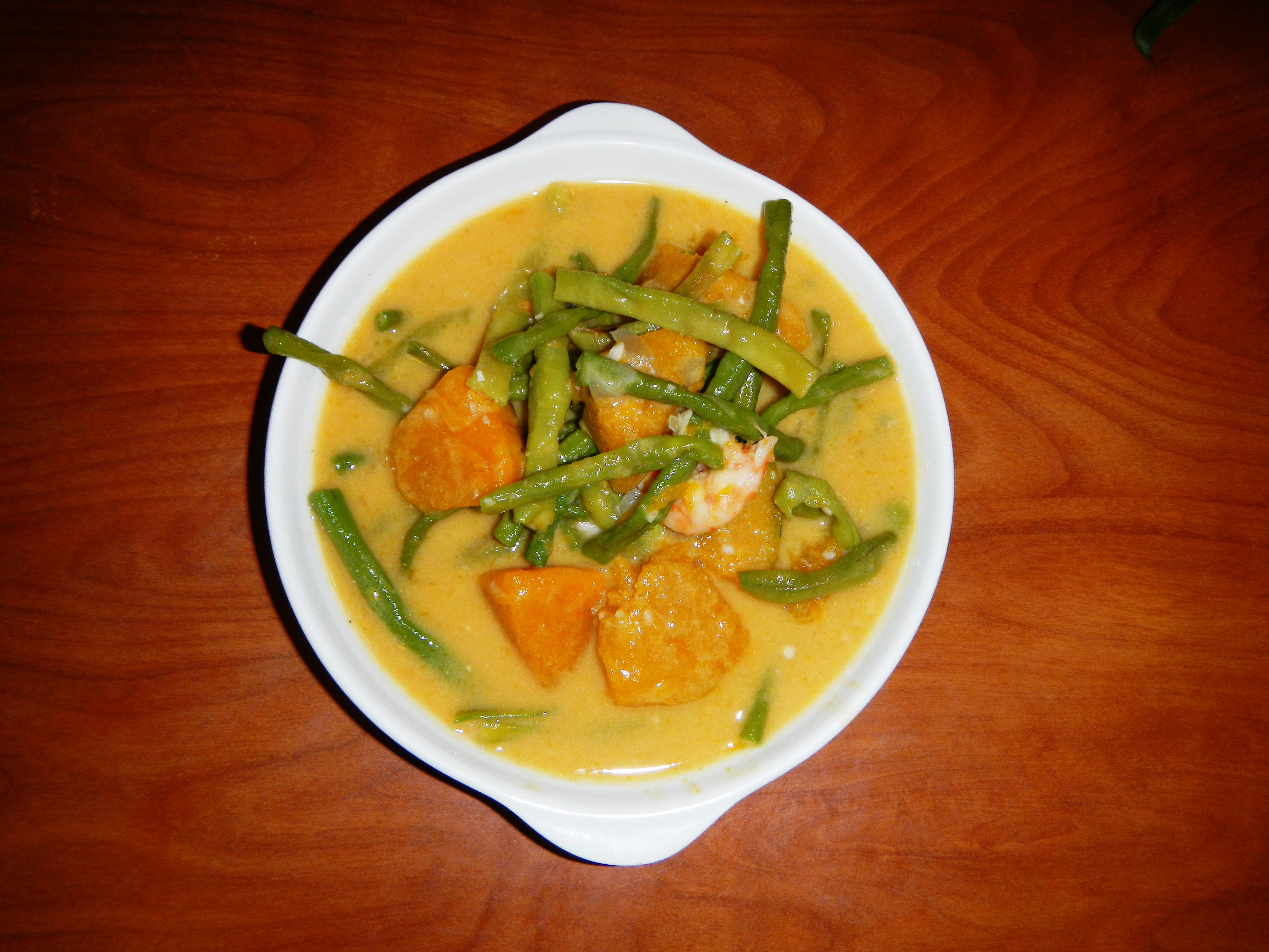 Ginataang kalabasa and sitaw, coconut milk, squash and string beans.